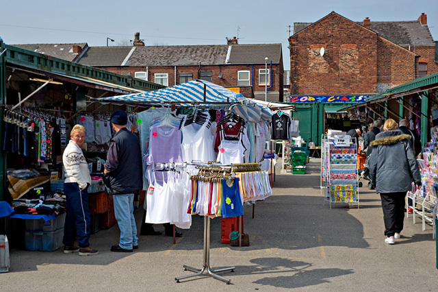 Ashton Market Ashton Outdoor Market